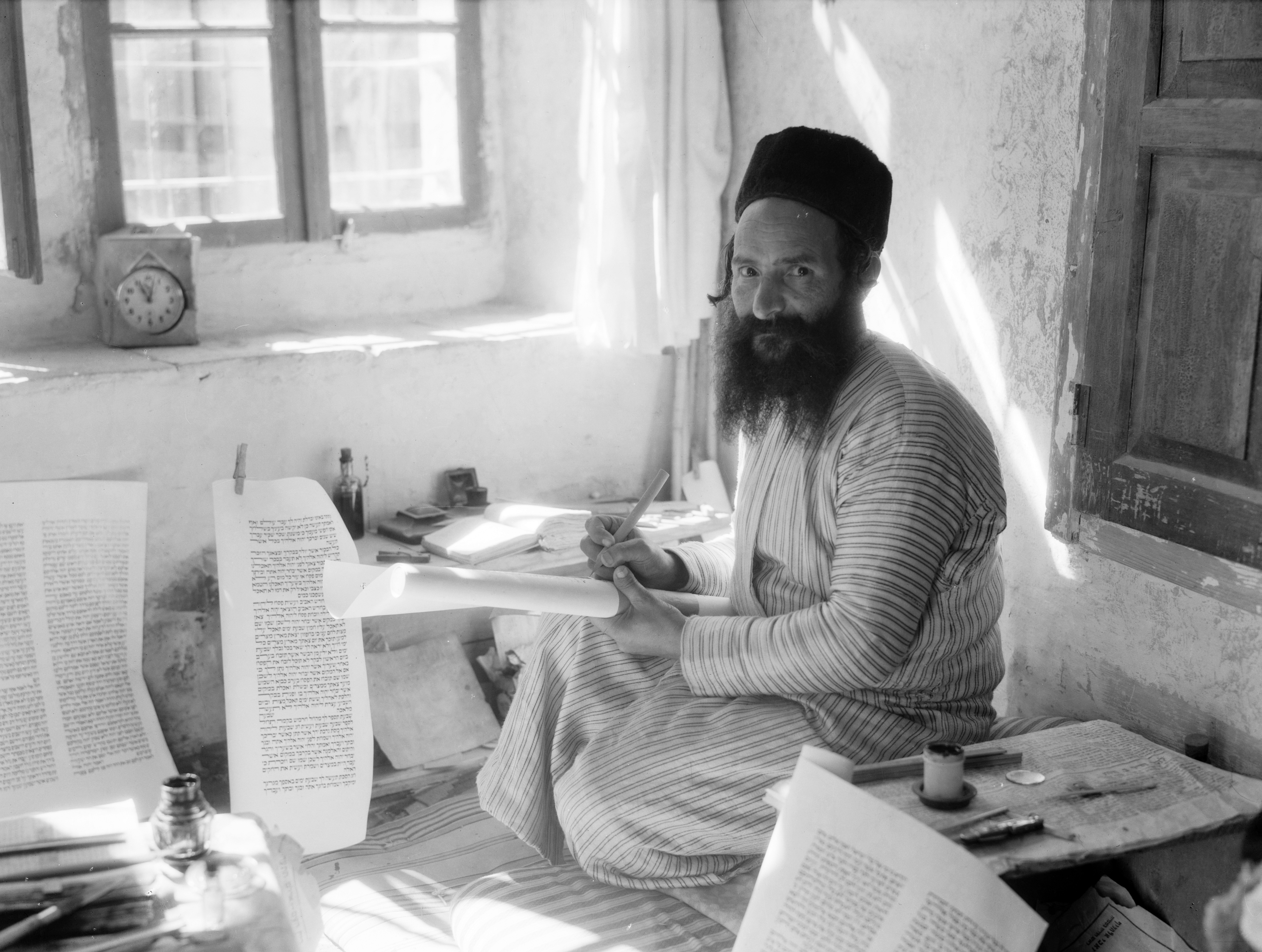 Orthodox Jewish scribe, Shlomo Washadi, writing the Torah on parchment.